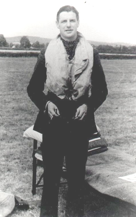 At readiness at Exeter airfield during the Battle of Britain, summer 1941